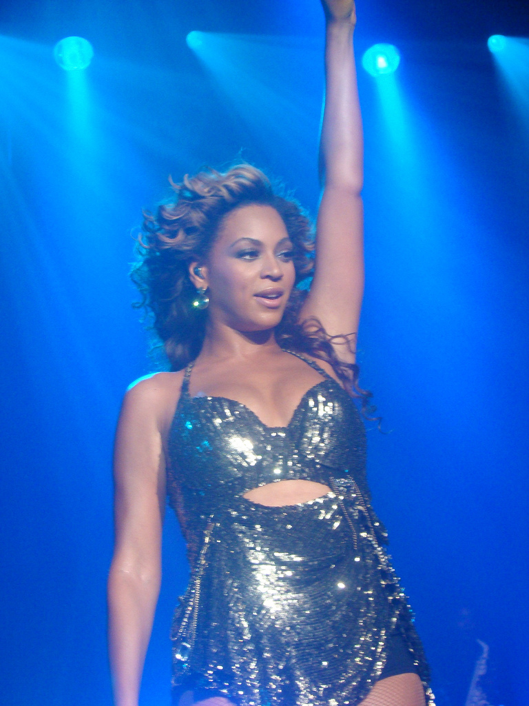 Beyoncé live in New York City.